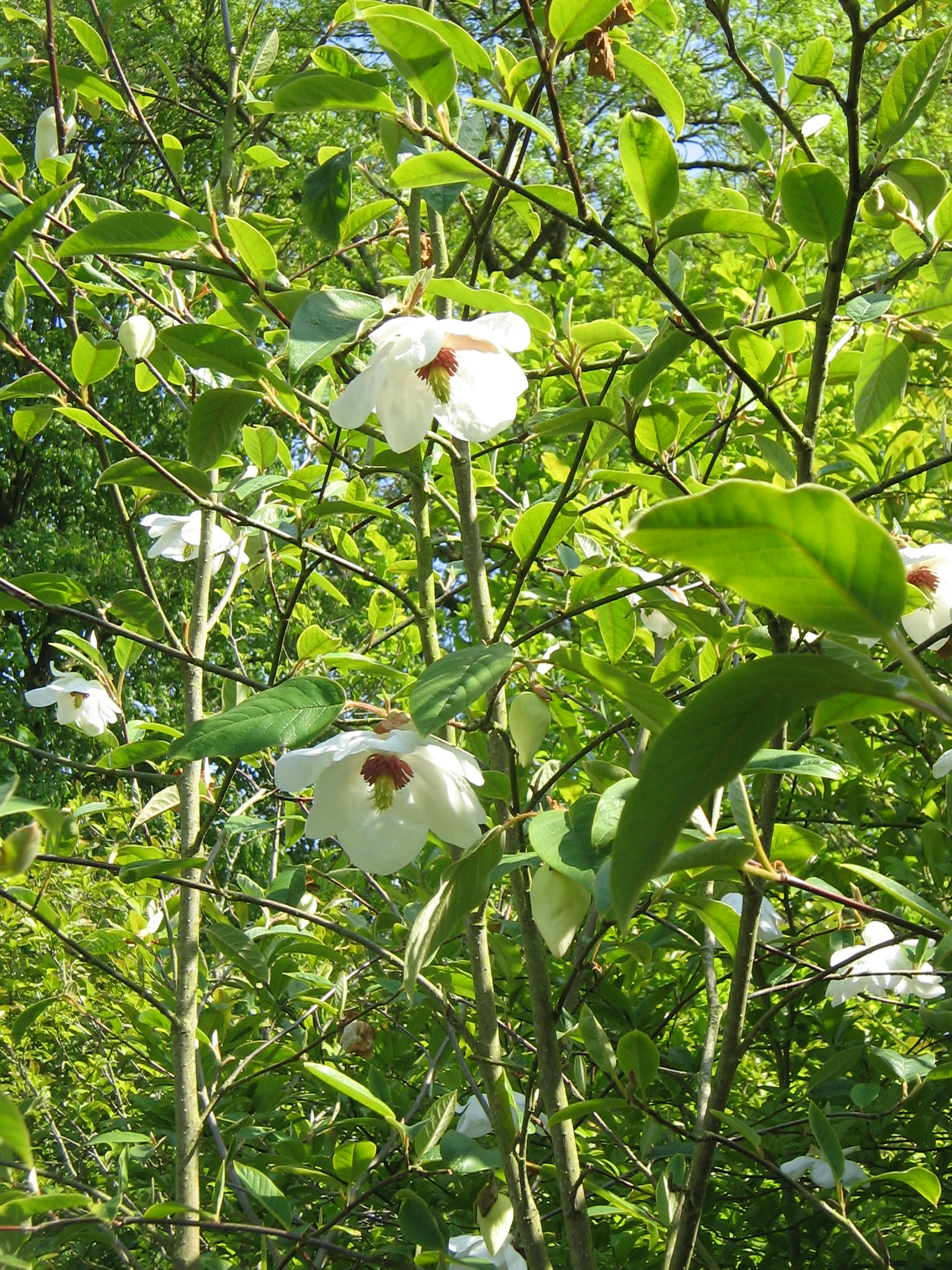 Magnolia sieboldii